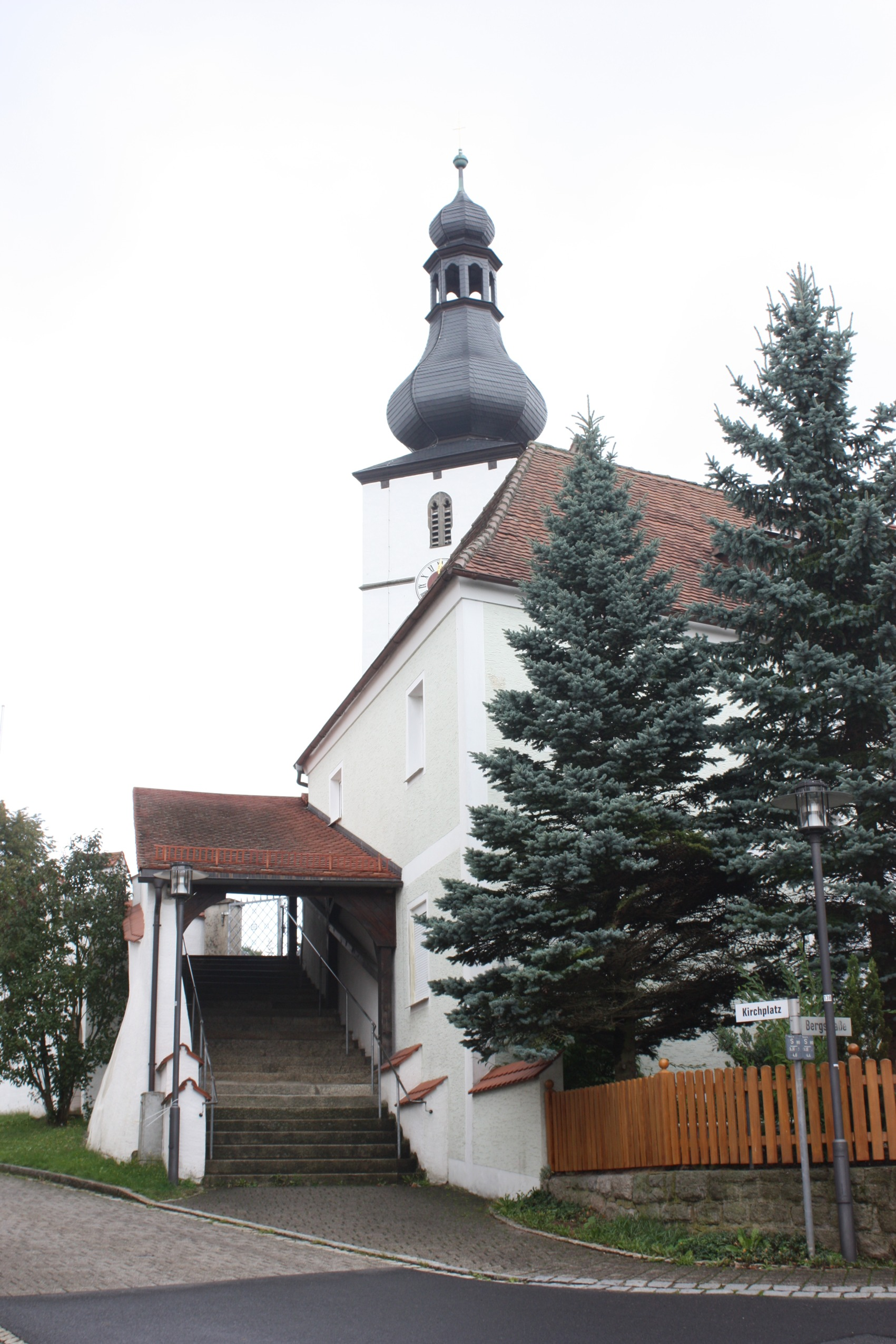 Kastl bei Kemnath, view to the village church